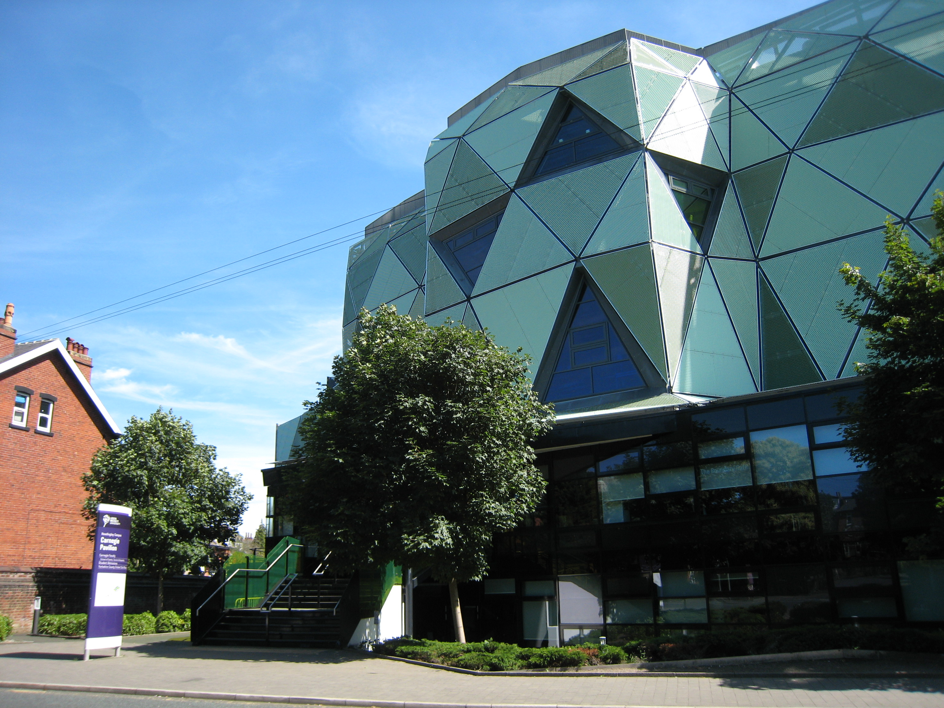 Headingley Carnegie Pavilion with Leeds Beckett University sign indicating this part is a university building.